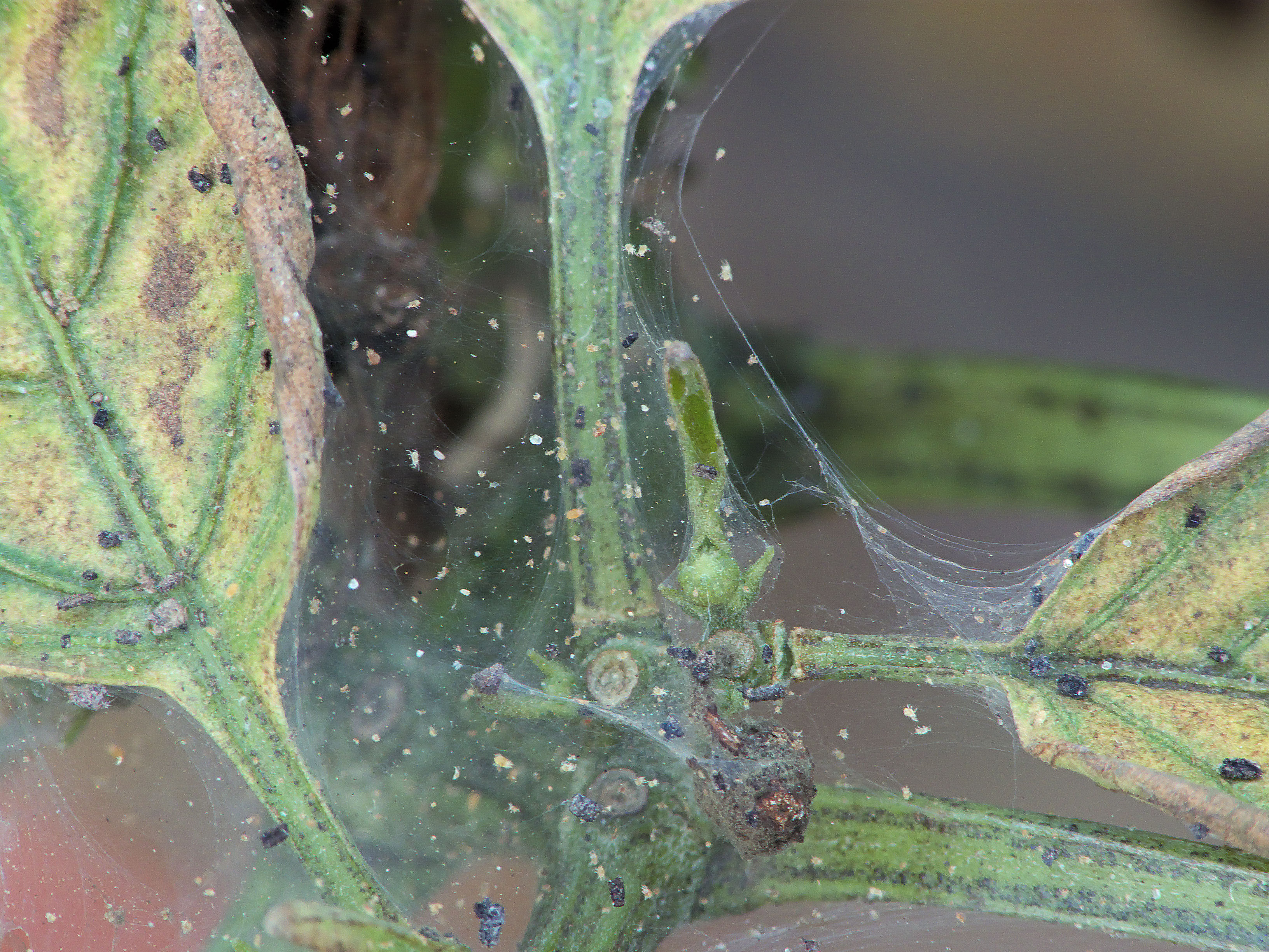 Tetranychus urticae on sweet pepper